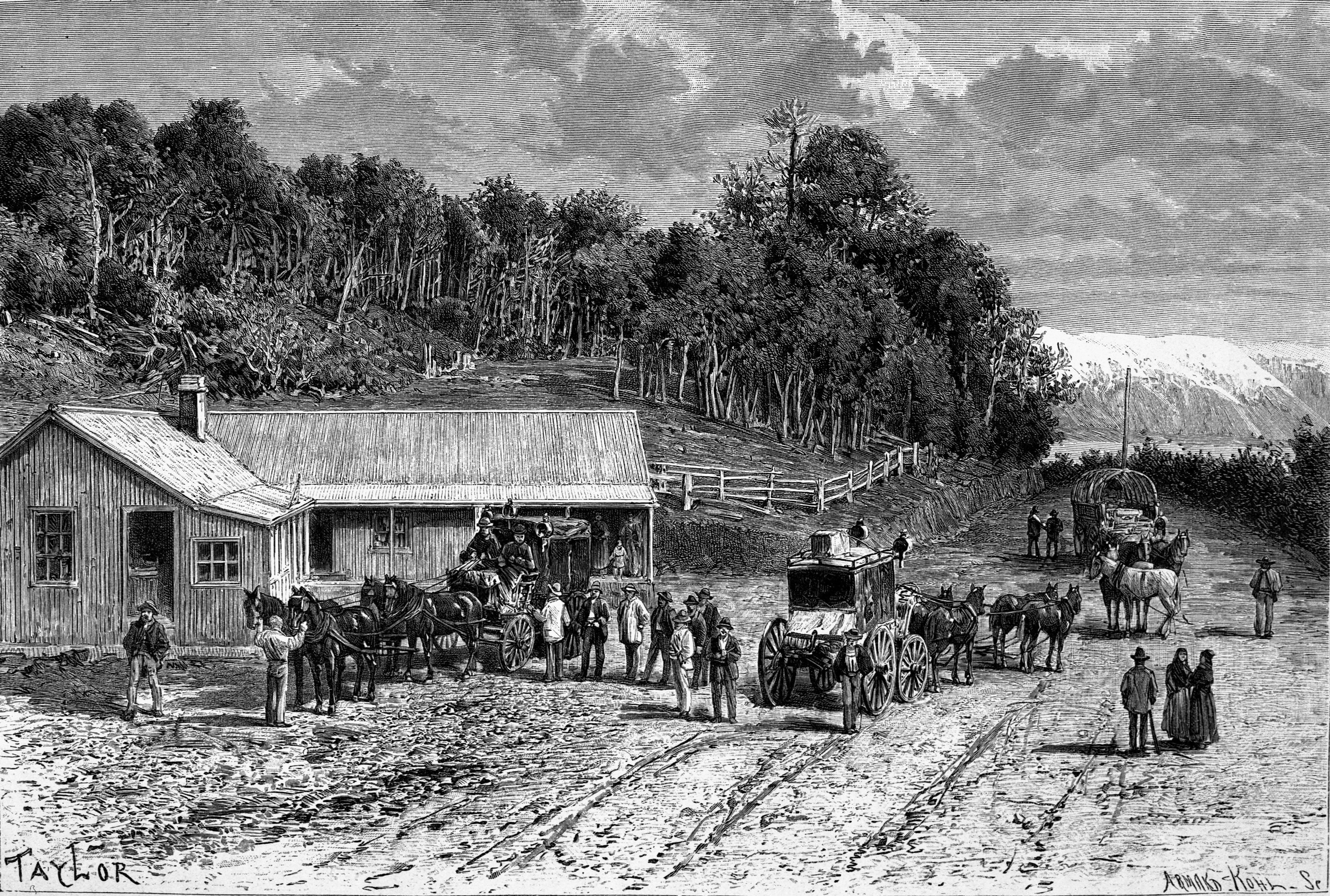 Shows two coaches and a cart stationed outside hotel at Bealey, West Coast Road, Canterbury. The road continues into the distance on the right, with distant glimpses of the Bealey or Waimakariri river and the Southern Alps.